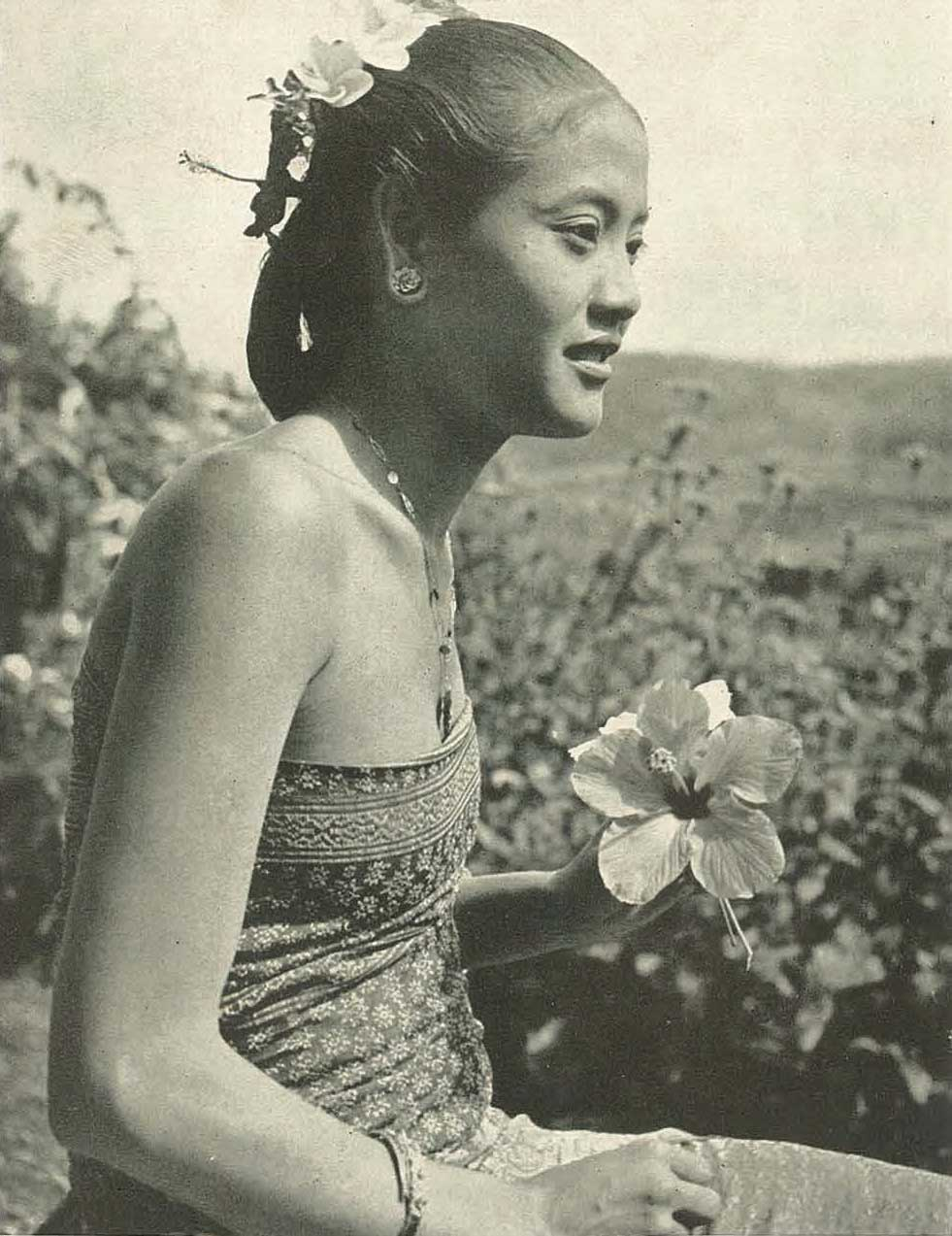 Swiss artist Theo Meier's second wife (name not recorded in the source book)